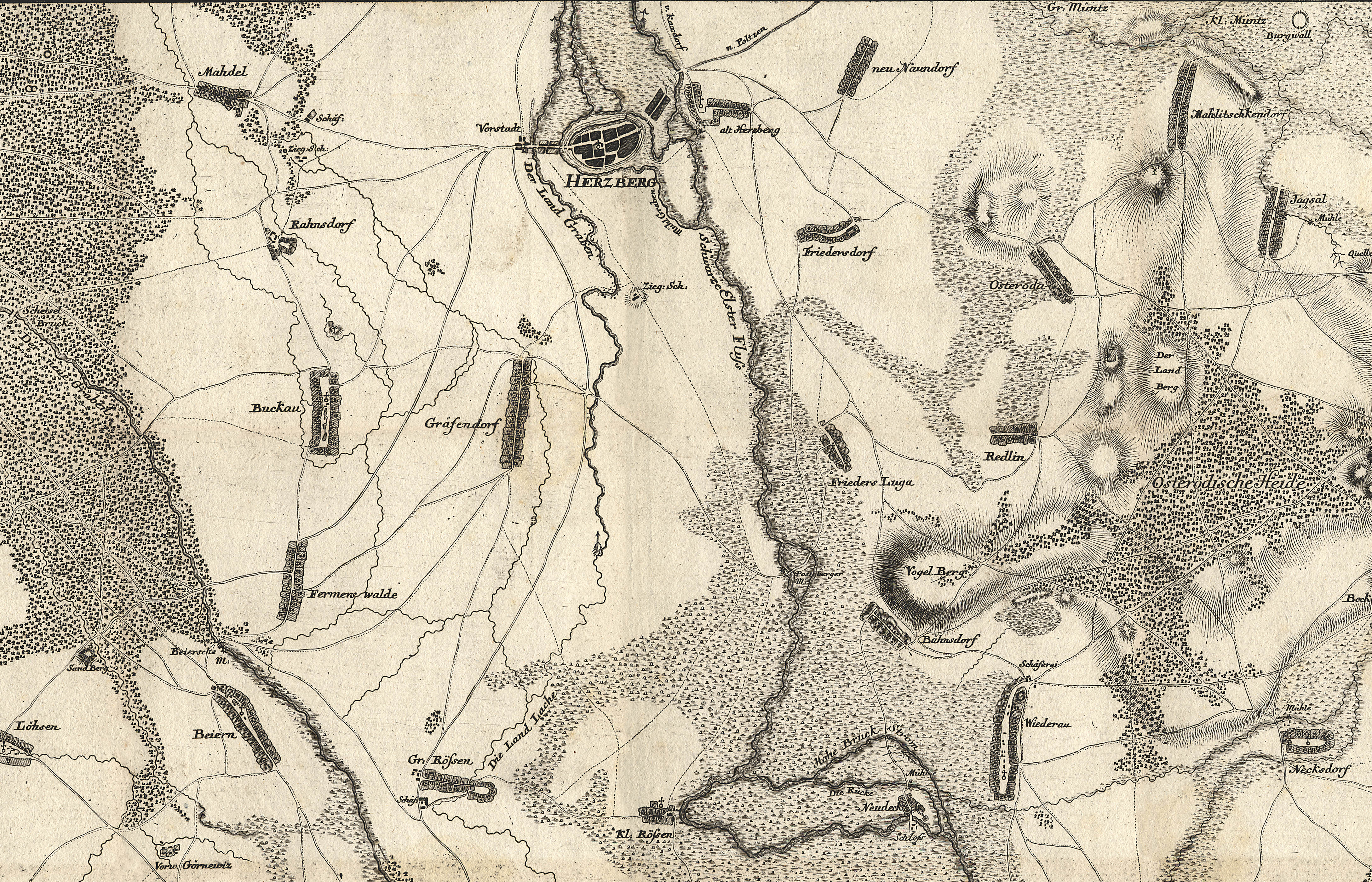 view of Herzberg (from part Herzberg) of the map "Situations und Cabinets=Carte von einem anderen Teile des Churfürstentums Sachsen" Major Isaak Jacob von Petri